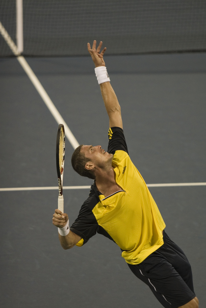 Marat Safin at 2008 US Open